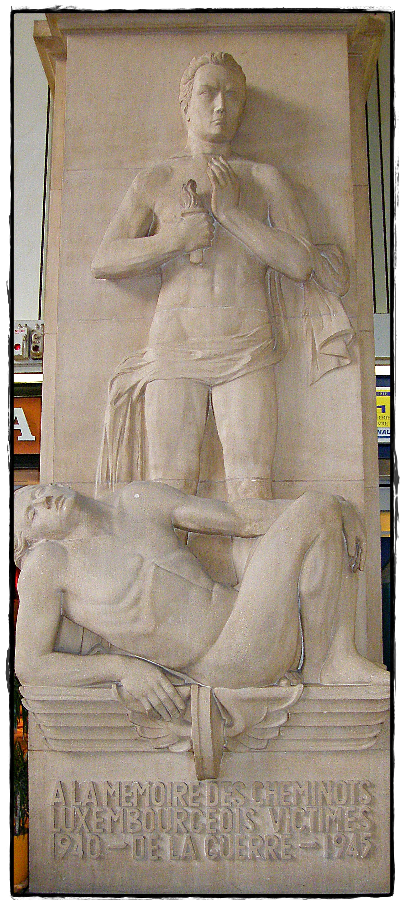 World War II Memorial in the hall of the Main Railway station in Luxembourg City.